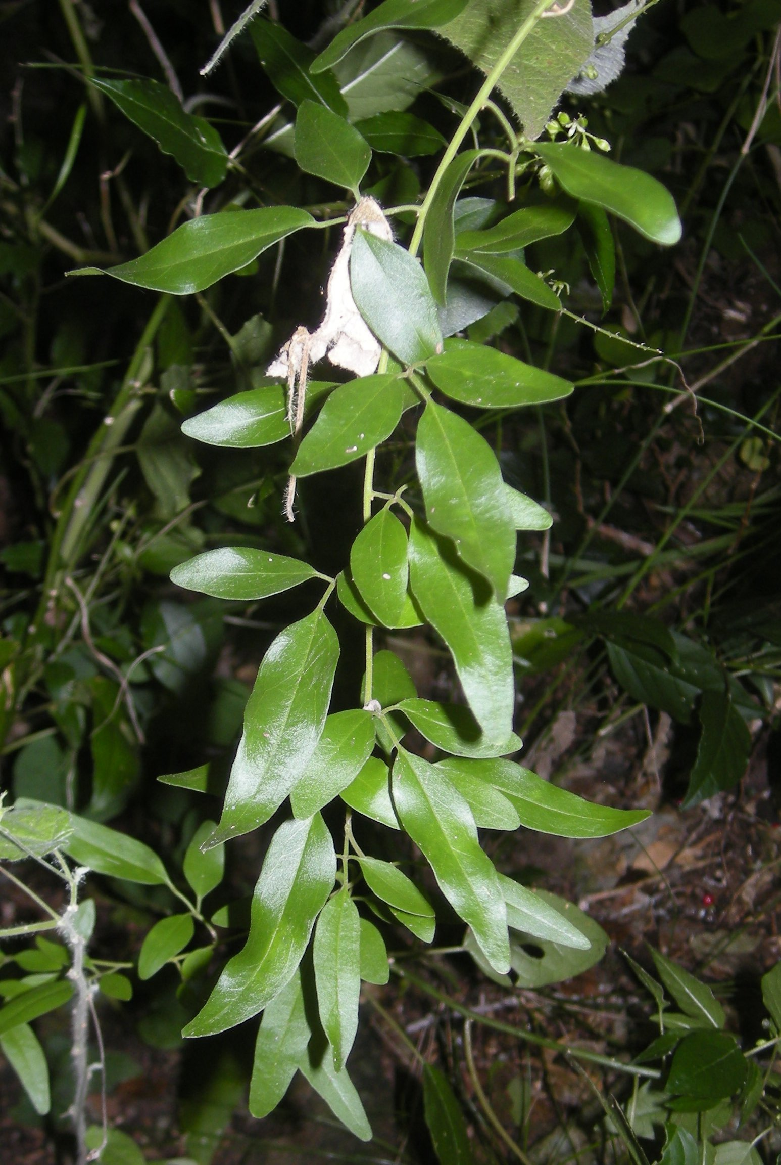 Jasminum didymum subsp. racemosum foliage